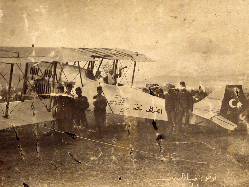 Fiat R.2 "Erzurumlu Nazif"